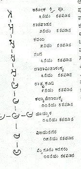 evolution of kannada language alphabet -a